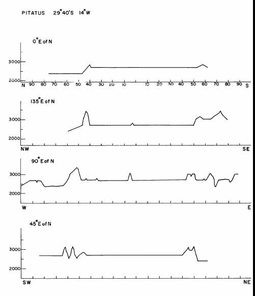 Pitatus crater cross section